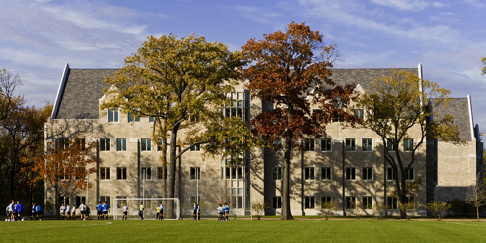 Dominican University, River Forest, Illinois, Parmer Hall, Soccer Field